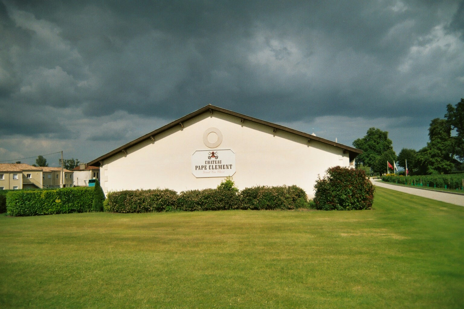 Château Pape Clément